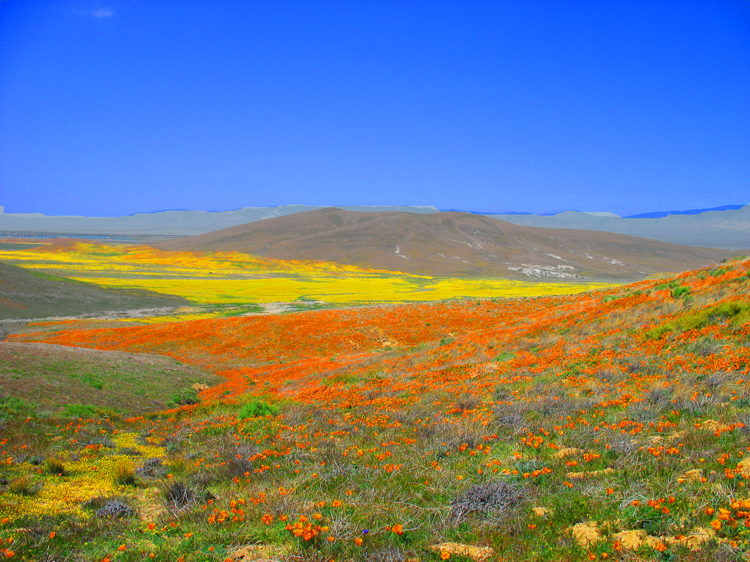 Wild flowers light up the Antelope Valley — at the Antelope Valley California Poppy Reserve.